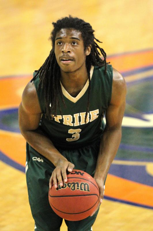 Florida Gators vs William&Mary Basketball 2014